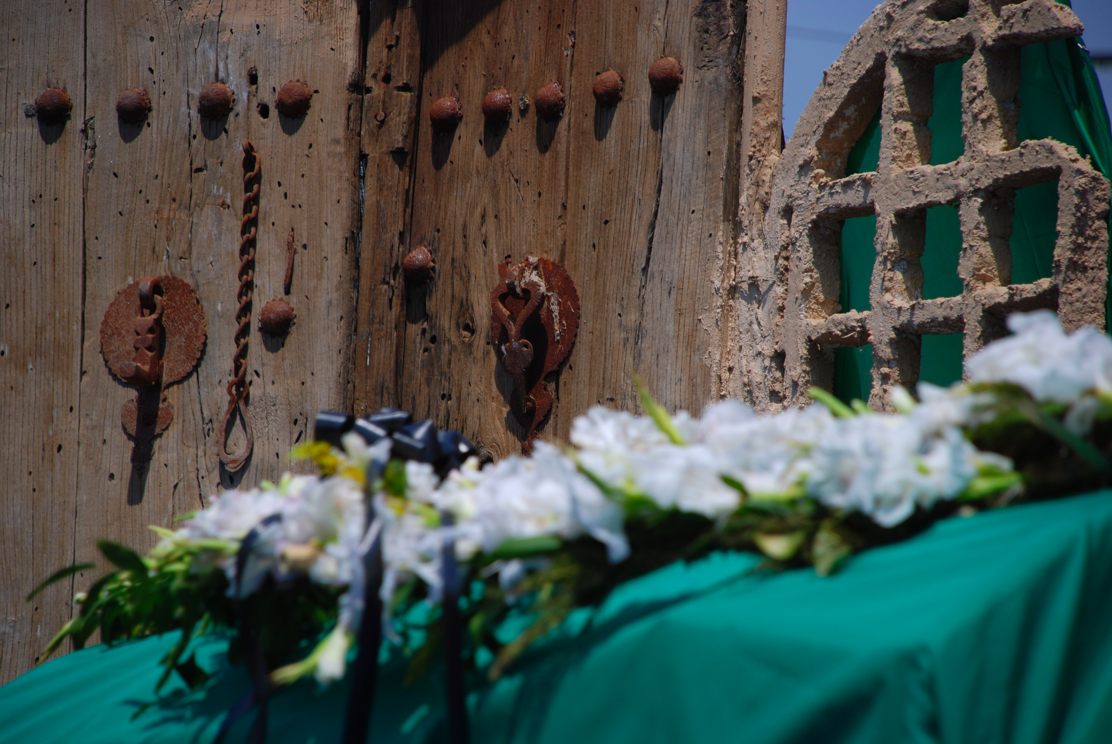 Fatima - Mourning Ceremony Fatemiyeh Photo by: Alireza Habibi